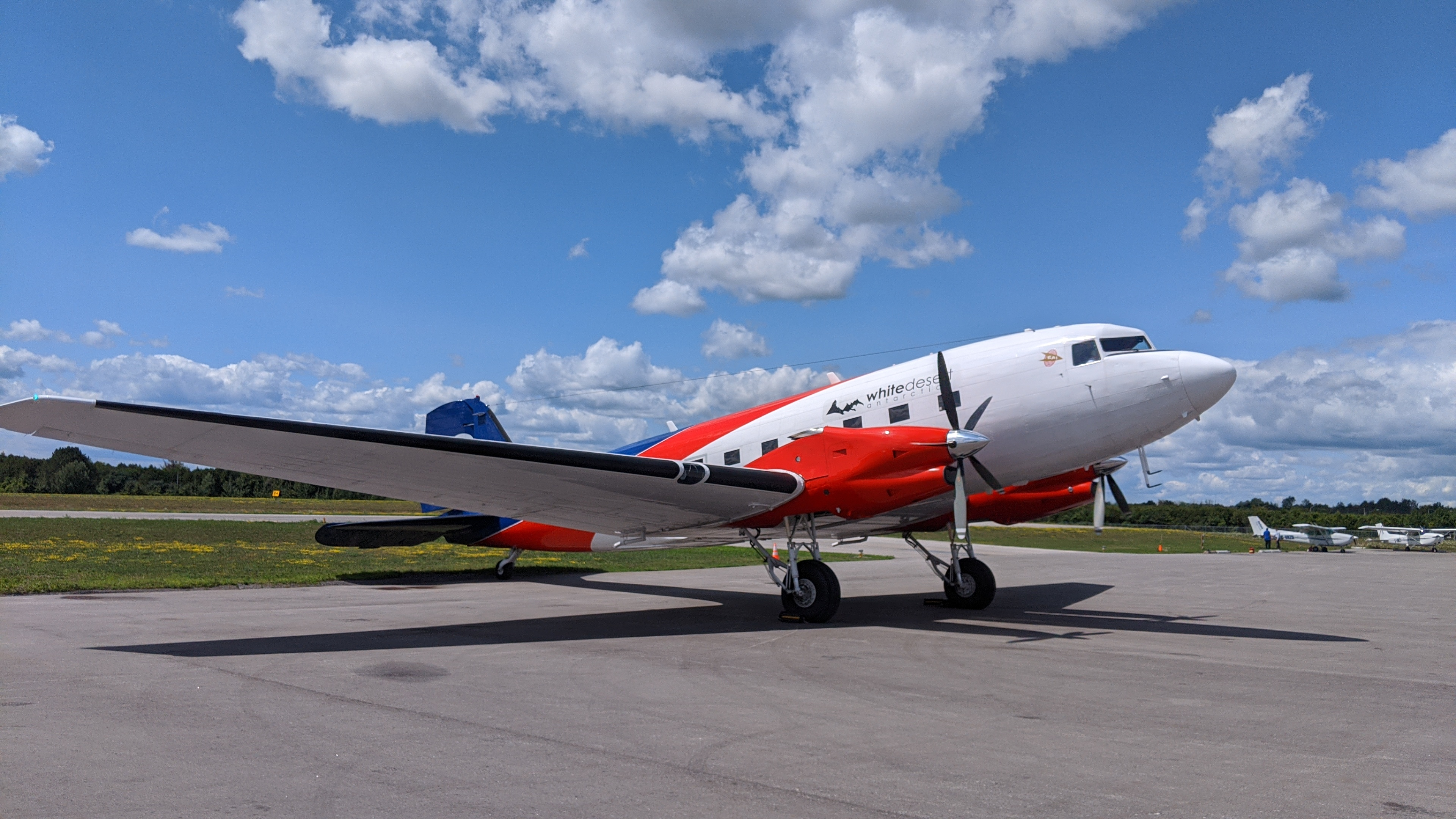 ALCI Aviation Basler BT67 at Enterprise Air.